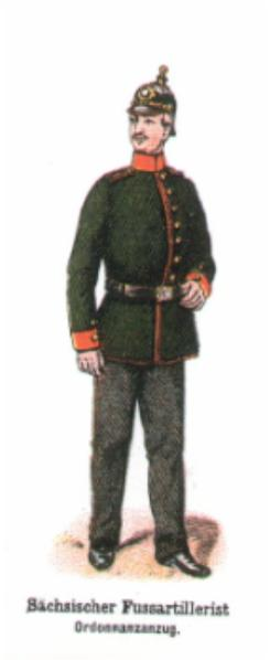 Royal Saxonian Artillery of Foot